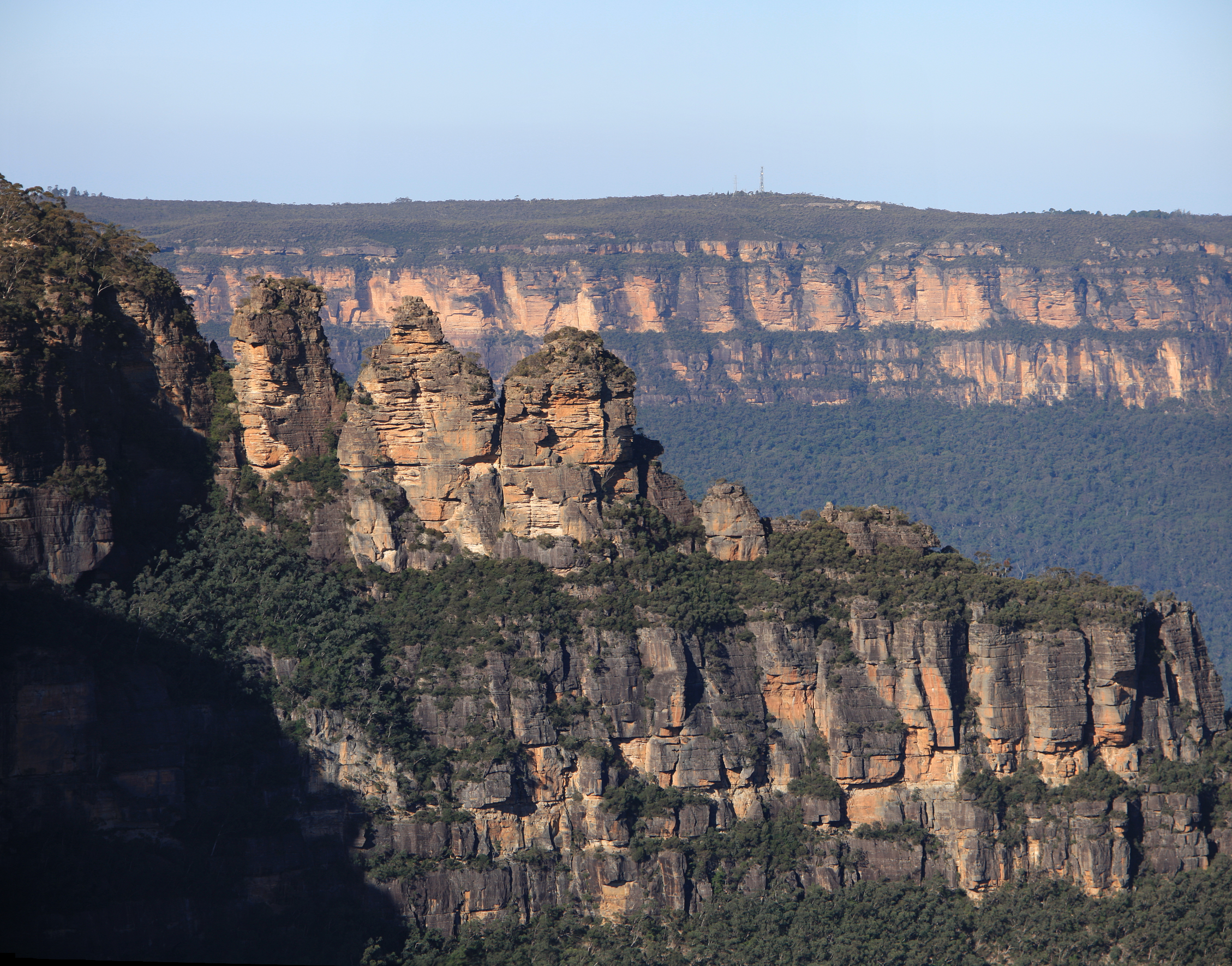 Three sisters in Katoomba in the Blue Mountains, New South Wales